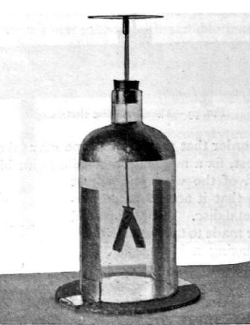 Photo of a gold-leaf electroscope from around 1900. This is a homemade one for amateur electricity experiments. The two grounded strips of metal foil on the inside of the jar flanking the gold leaves are a safety measure. If an excessive charge is placed on the electroscope, the gold leaves will touch the foil and discharge, rather than tearing.